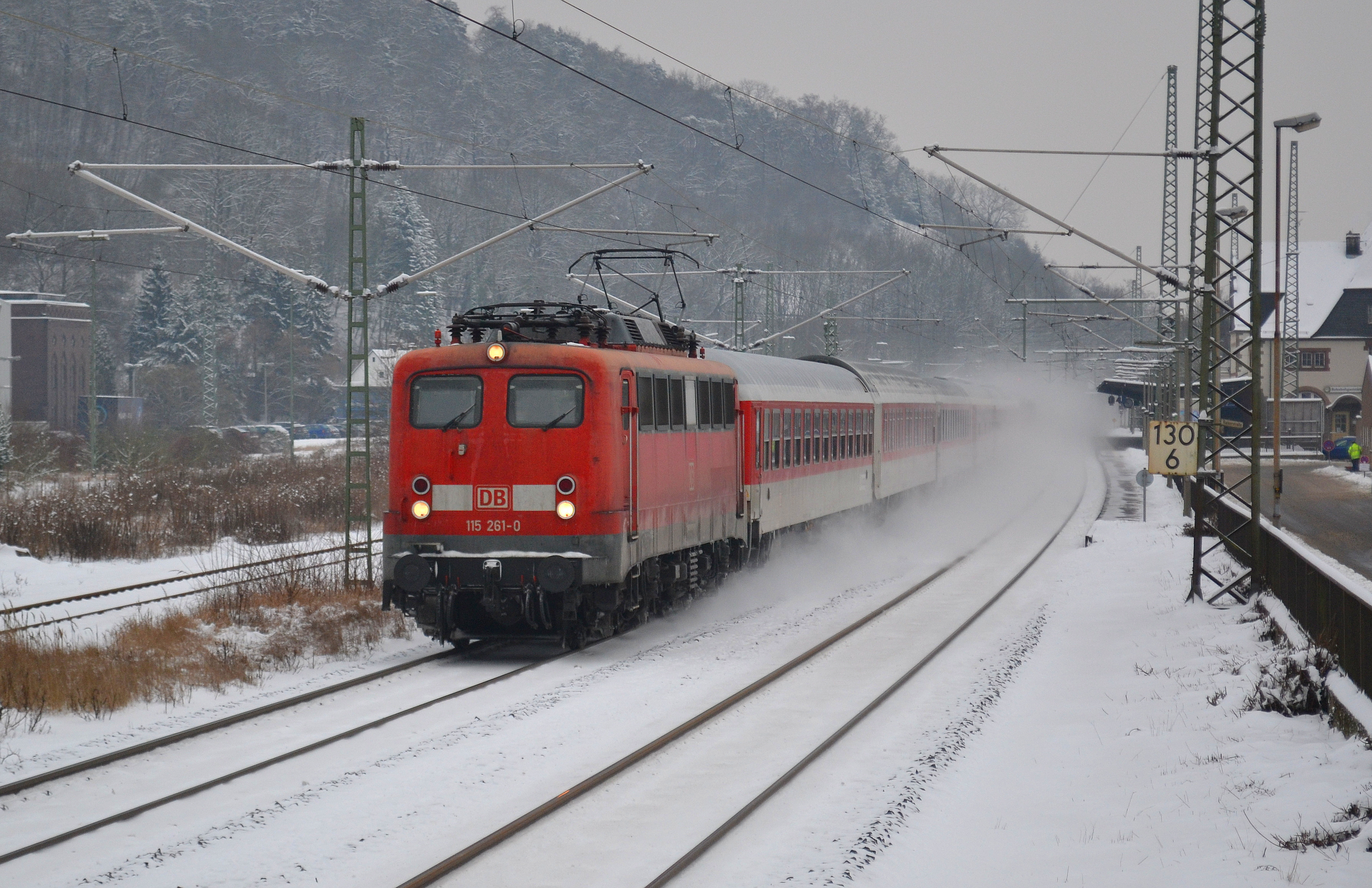 On Tuesday, January 22, 2013 strung 115 261-0 (built in 1962) the AZ 1339. The picture was taken in Herborn in the Dill Railway.